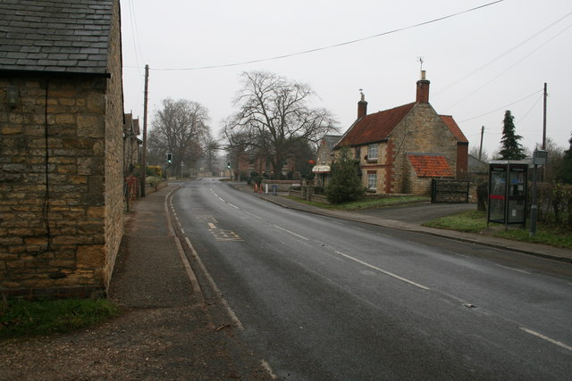 Looking down the A607 towards the Post Office Looking down the A607 towards the Post Office